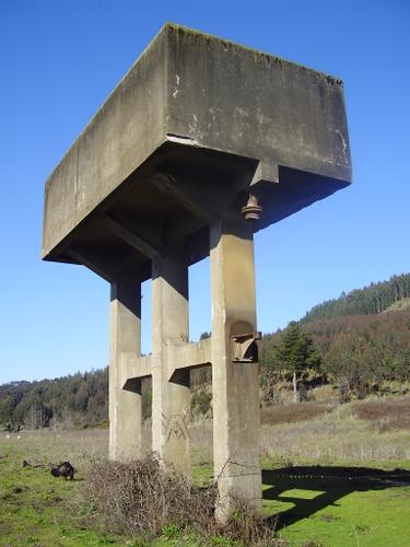 train station